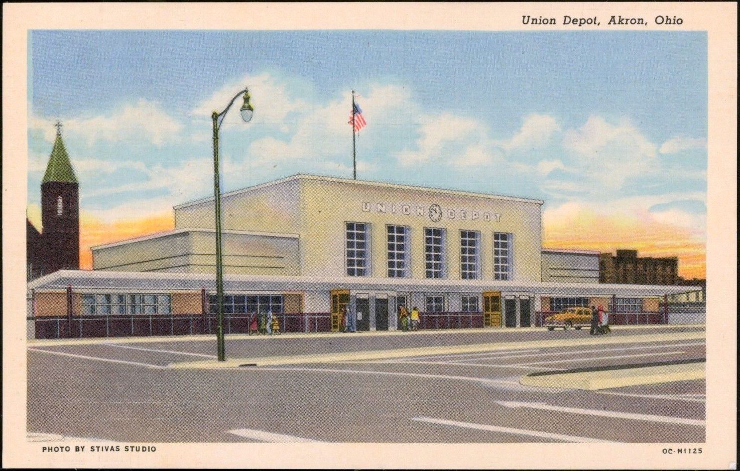 1950s white border postcard of Akron Union Depot